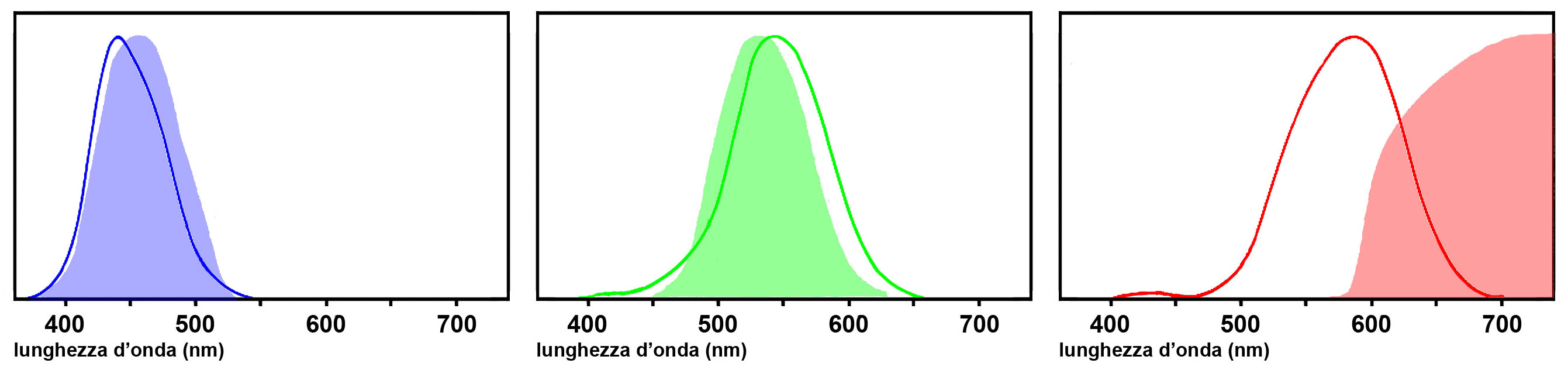 Curves: Spectral sensitivity of human photoreceptors. - Filled areas: Spectral power of light transmitted by lamps fiiltered with RGB filetrs, used in additive color reproduction.